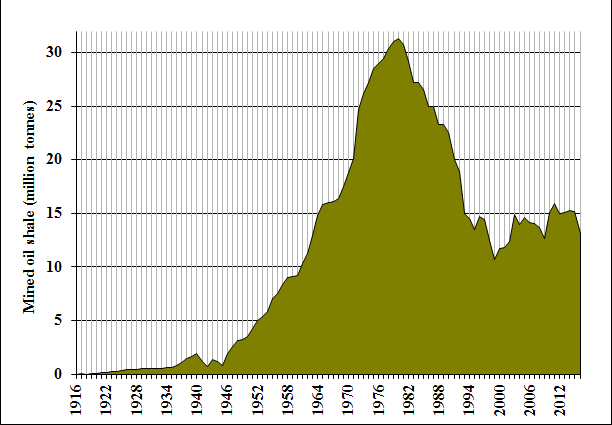 Amount of mined oil shale in Estonia (millions of metric tons from 1916 to 2013)